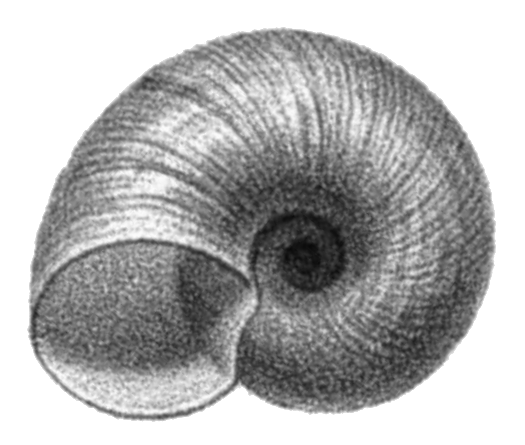 Drawing of an apical view of the shell of Choanomphalus amauronius amauronius.